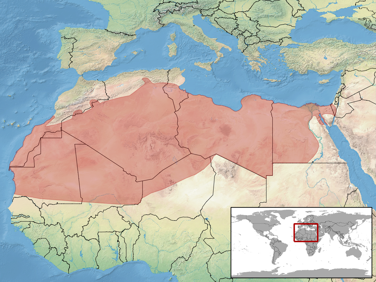 geographic distribution of Cerastes vipera (Native: Algeria; Chad; Egypt; Israel; Libya; Mali; Mauritania; Morocco; Niger; Tunisia; Western Sahara)